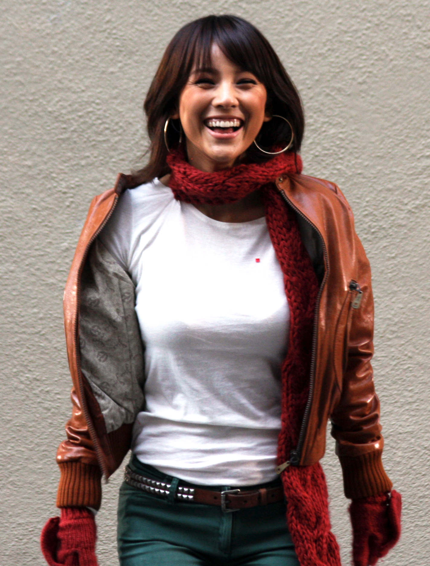 South Korean K-Pop singer and actress Lee Hyori shooting a commercial in Soho, New York.